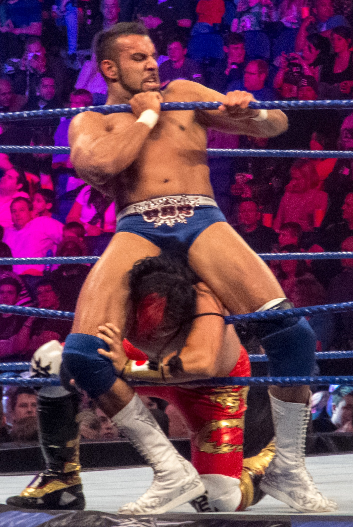 Jinder Mahal chokes Yoshi Tatsu on the ring ropes at the WWE Superstars tapings on 17 April 2012.